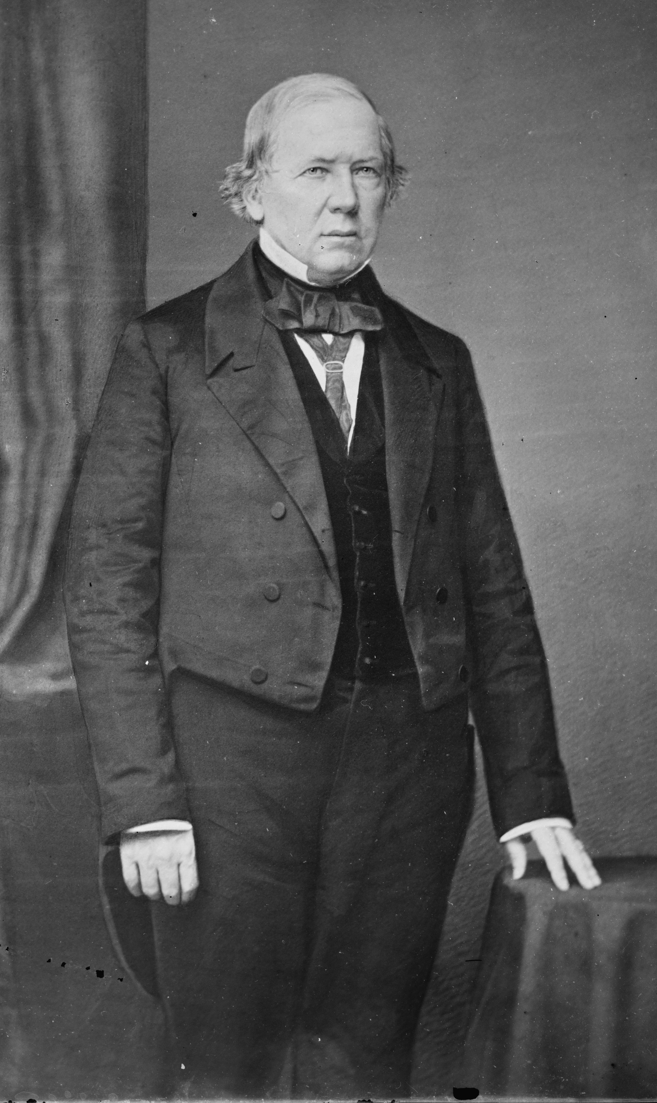 Alfred Iverson, Sr.. Library of Congress description: "Hon. Alfred Iverson of GA."